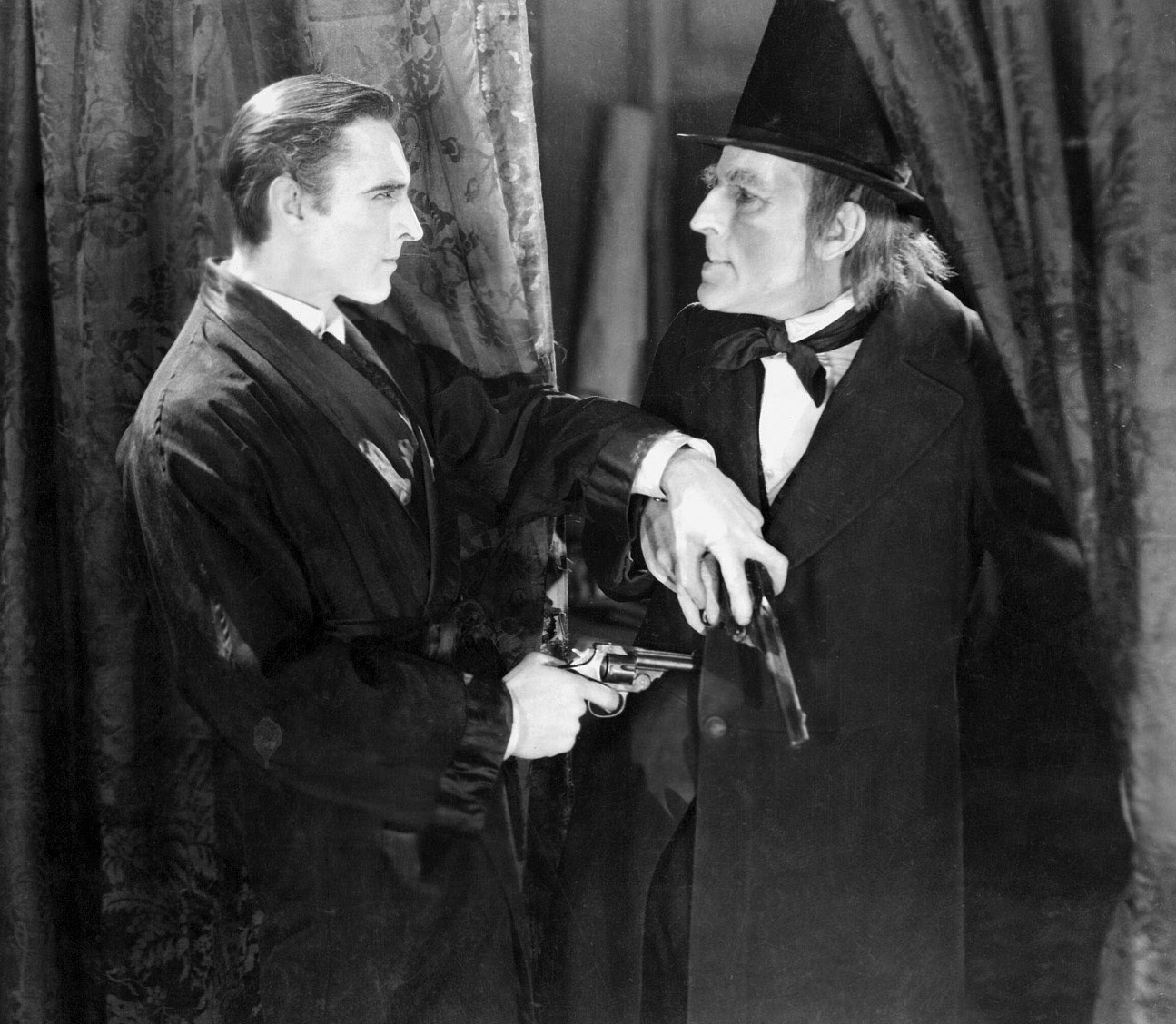 John Barrymore (left) & Gustav von Seyffertitz in Sherlock Holmes - publicity still (original image cropped : see source)